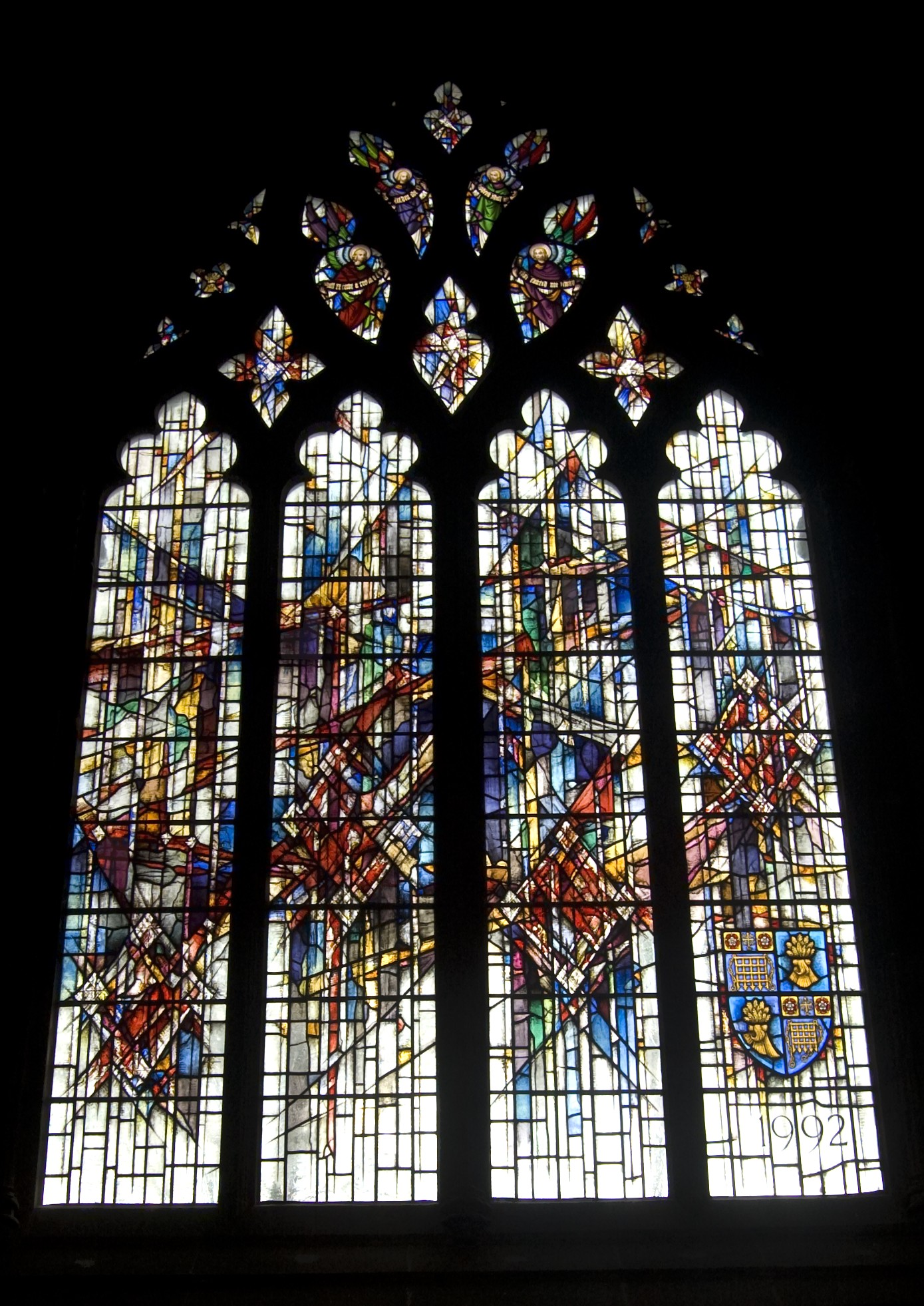 Chester Cathedral, England, the Westminster window.